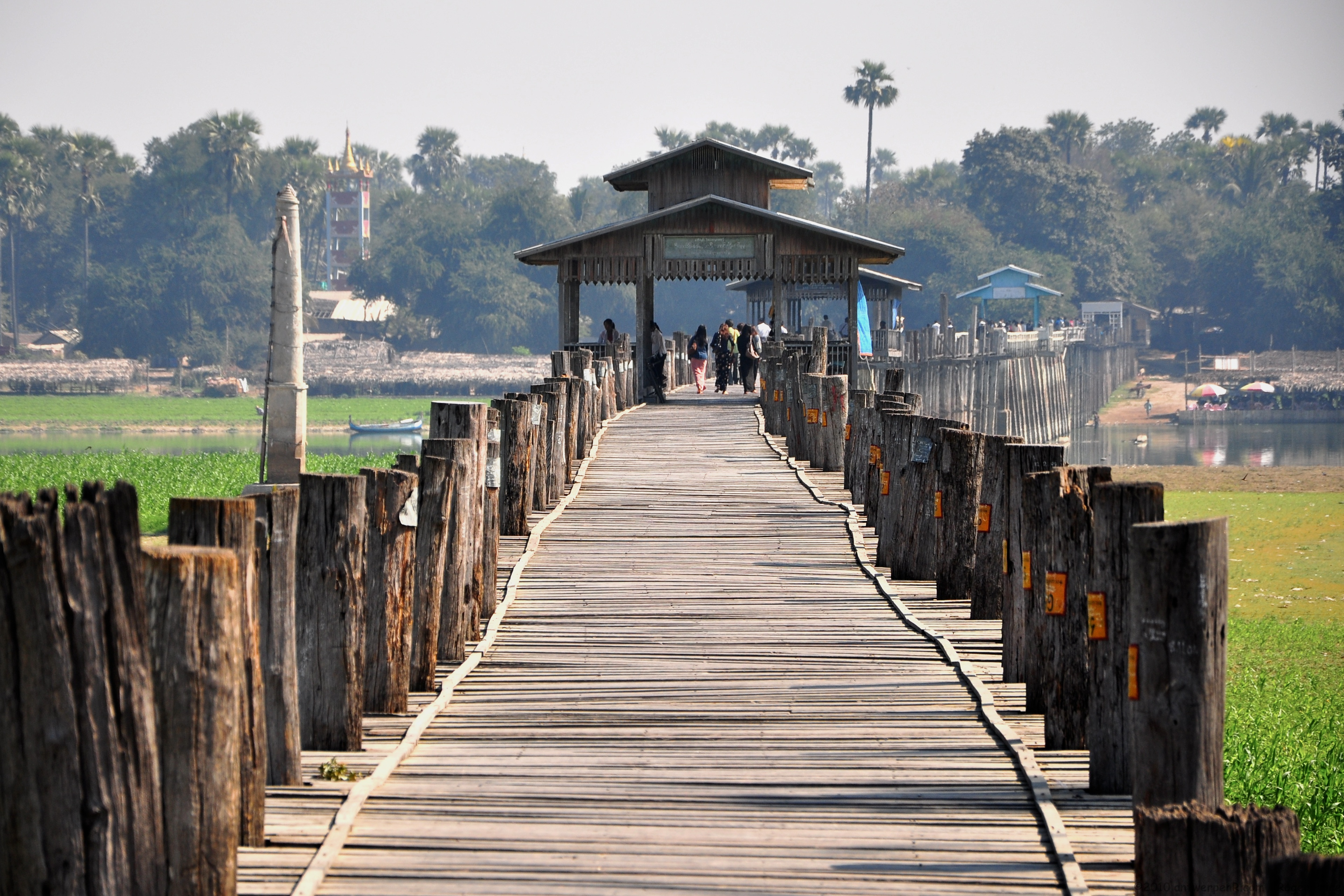 U Bein Bridge - longest teak bridge in the world